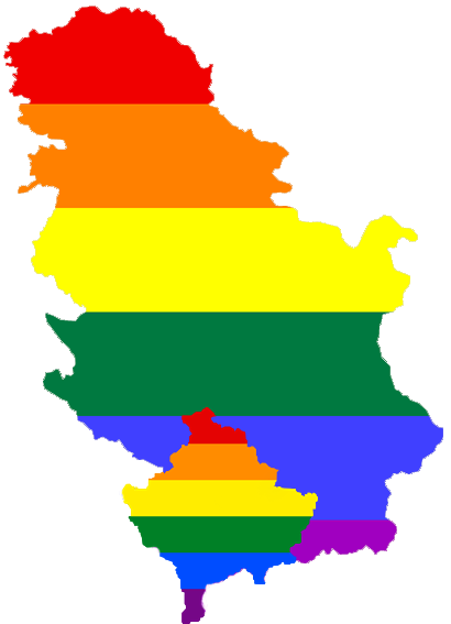 LGBT pride map of Serbia (with marked Kosovo)